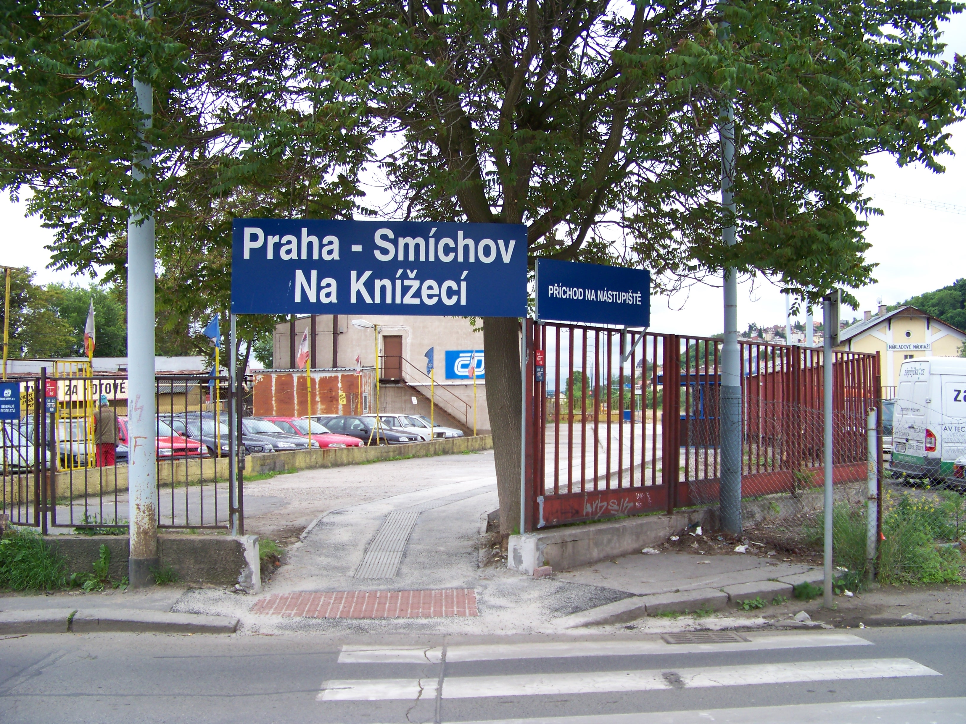 Smíchov, Prague, the Czech Republic. "Praha-Smíchov, Na Knížecí", temporary train stop.